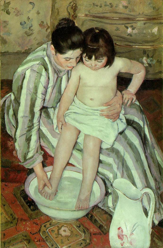 The Child's Bath (1893) Mary Cassatt (1844–1926) Oil on canvas 100.3 x 66.1 cm (39 1/2 x 26 in) Art Institute of Chicago